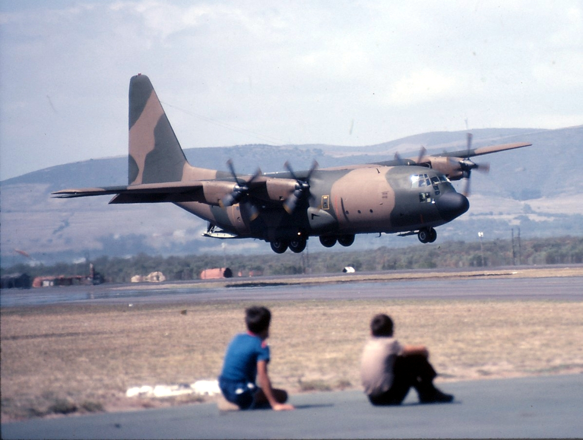 Hercules at AFB Ysterplaat air show